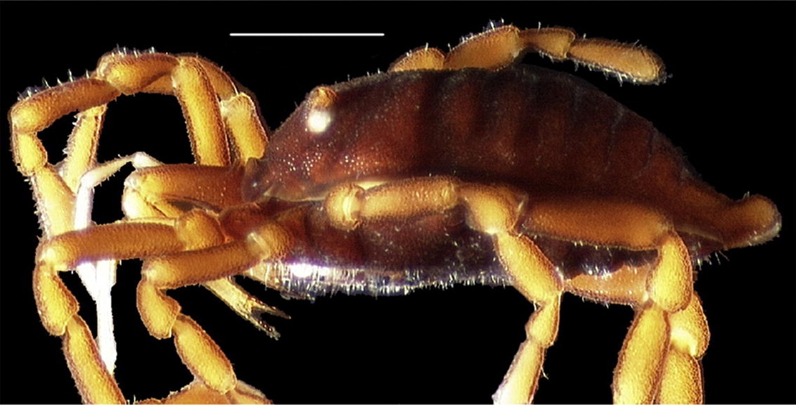 Lateral view of adult Pettalus (Opiliones, Pettalidae) . Scale bar: 1.0 mm